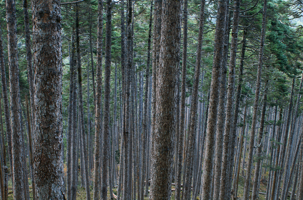 Taiwan Fir Abies kawakamii (Hayata) Ito